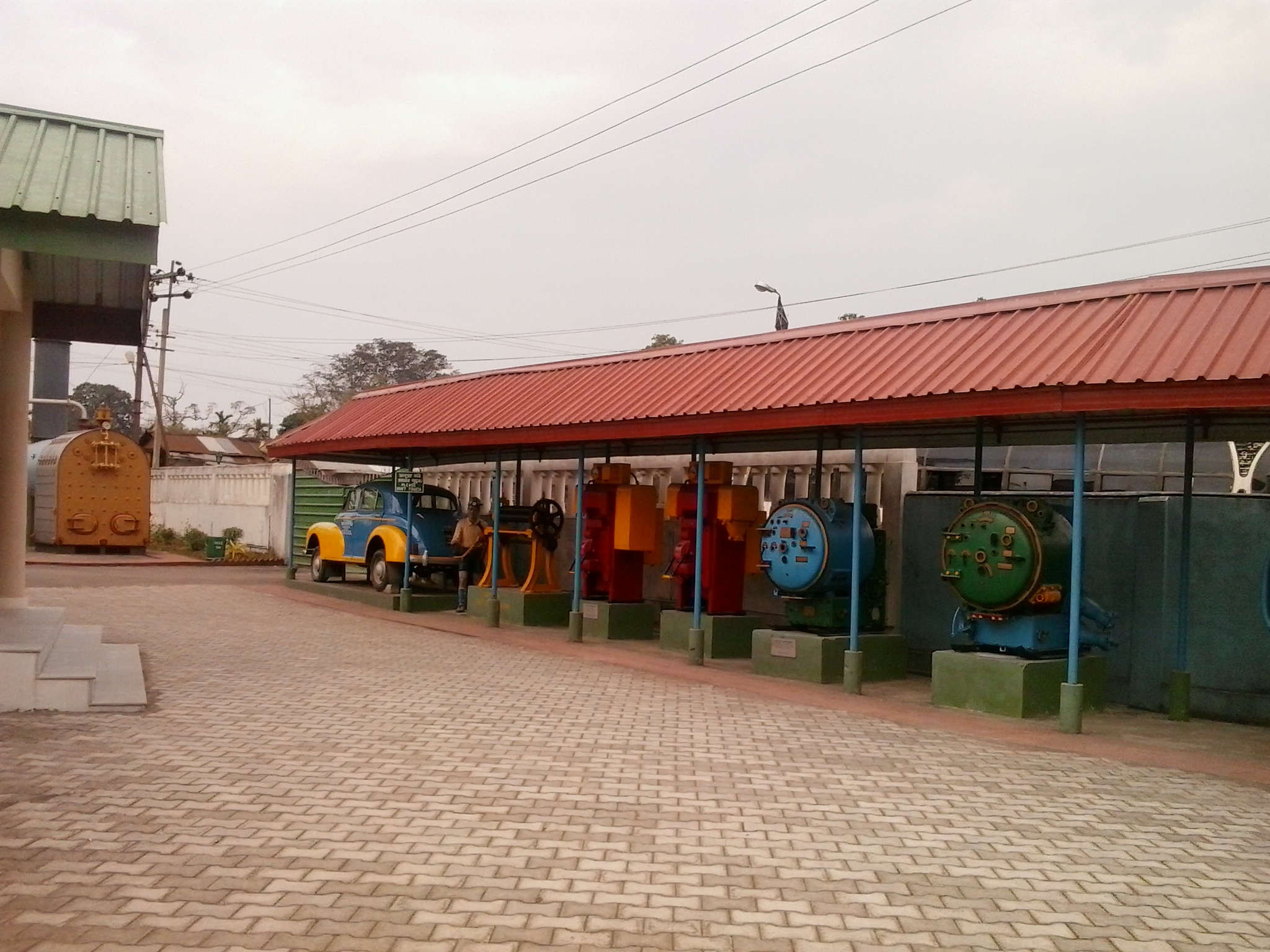 The photo was captured inside Coal Heritage Museum, Margherita.